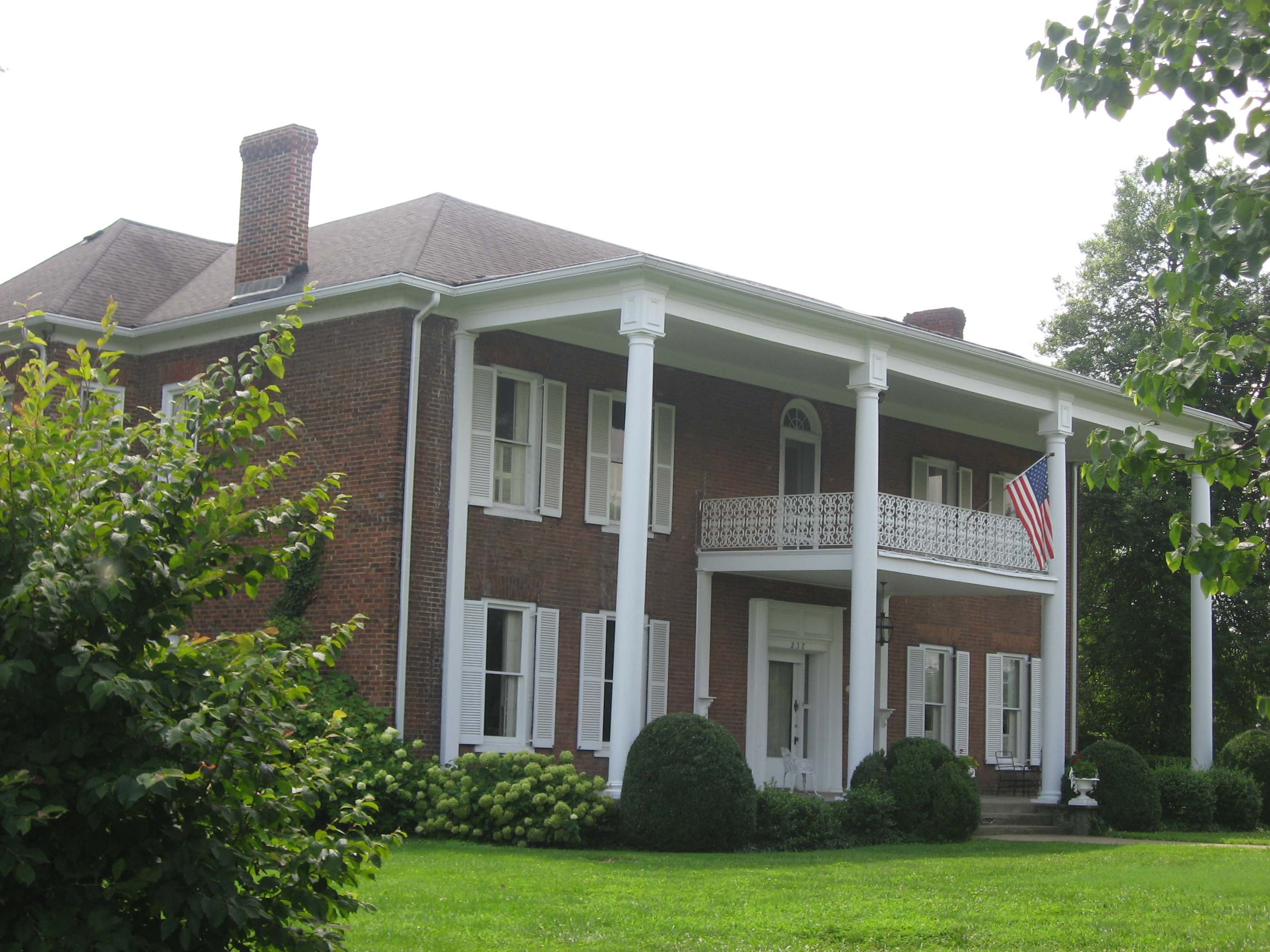 Front and eastern side of the Benjamin Helm House, located at 238 Helm Avenue in Elizabethtown, Kentucky, United States. Built in 1816, it is listed on the National Register of Historic Places.